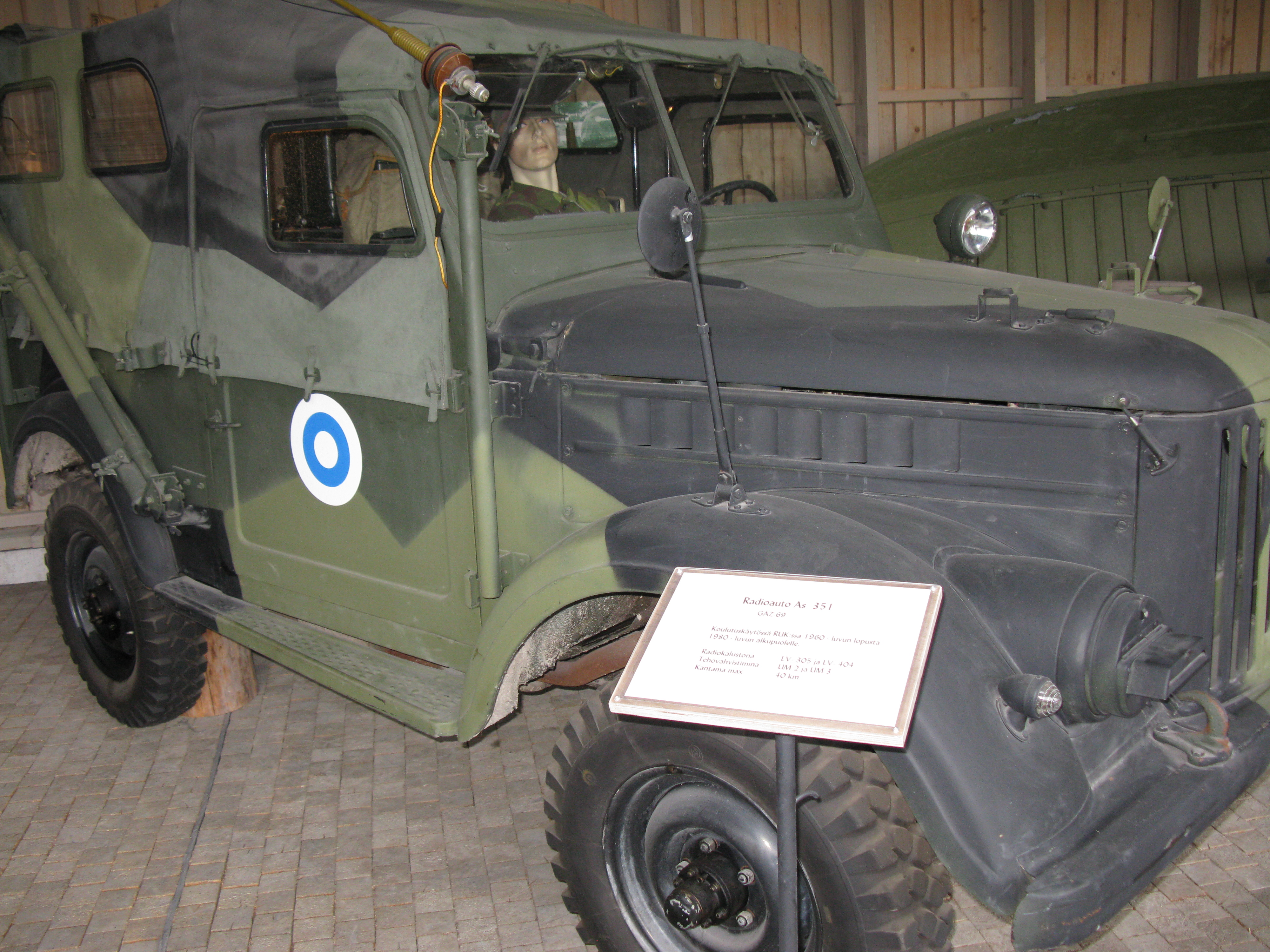 Russian made Gaz-69 used as a radio vehicle by the Finnish Defence Forces.